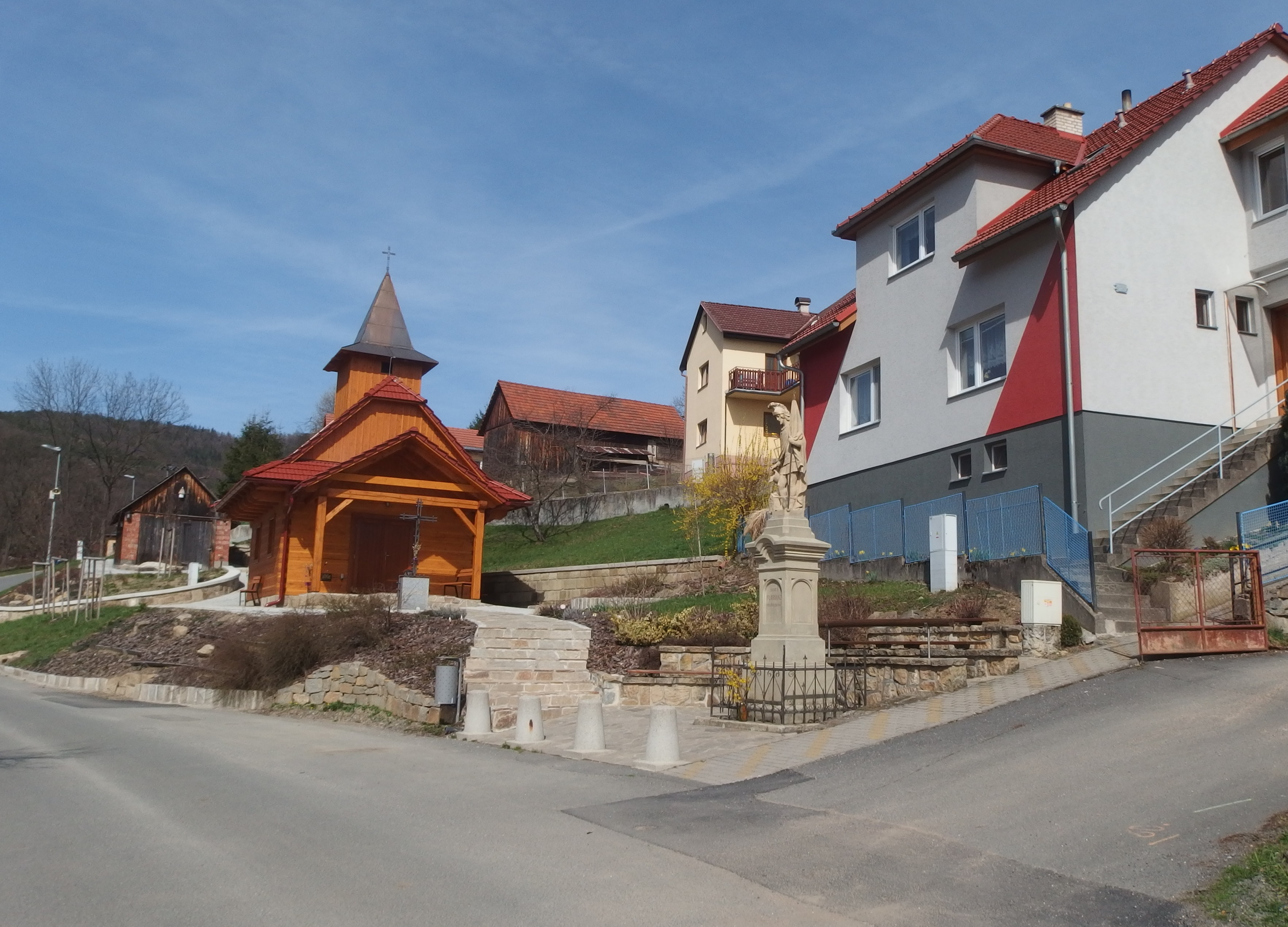 Podhradí, Zlín District, Czechia.